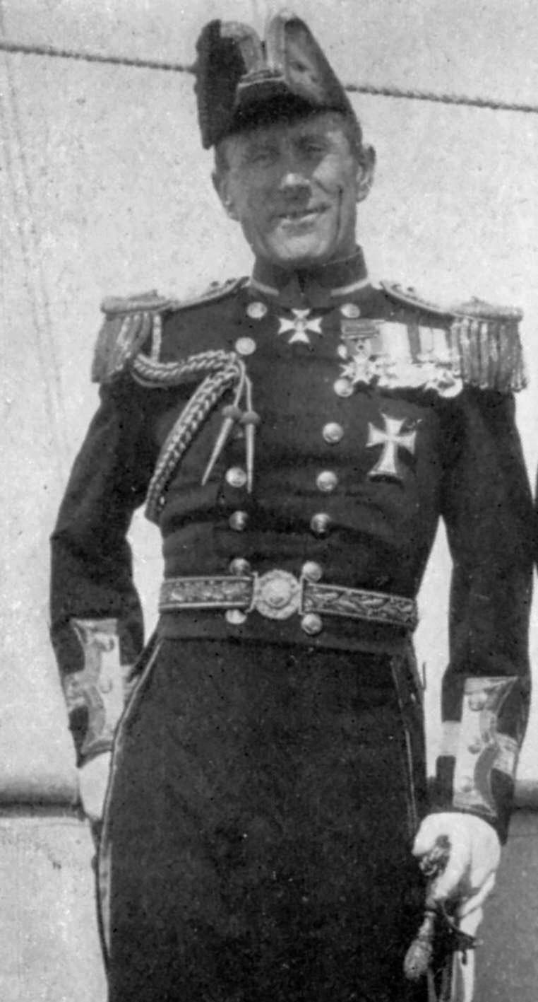 Commodore Colin Richard Keppel taken at the inspection of the fleet off Cowes 1907. Original image also shows Duke of Connaught, regrettably from behind.